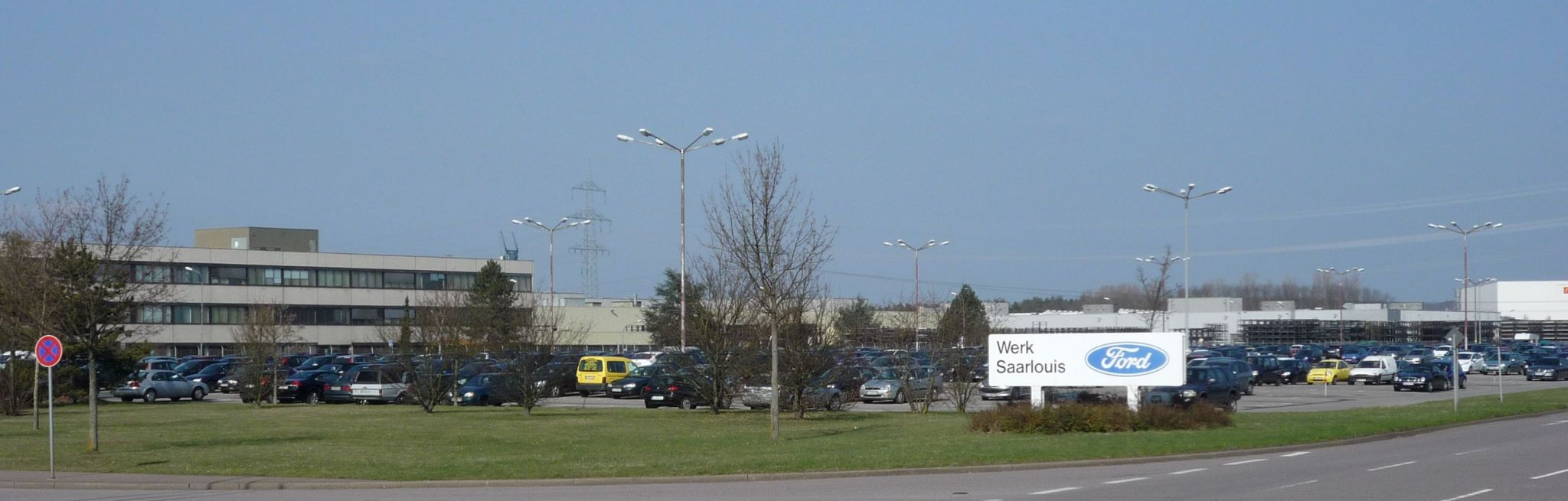 Ford Plant Saarlouis — in Saarlouis, the Saarland, Germany.